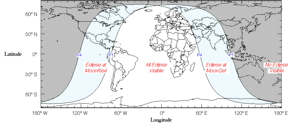 Visibility of the 2009-08-06 lunar eclipse